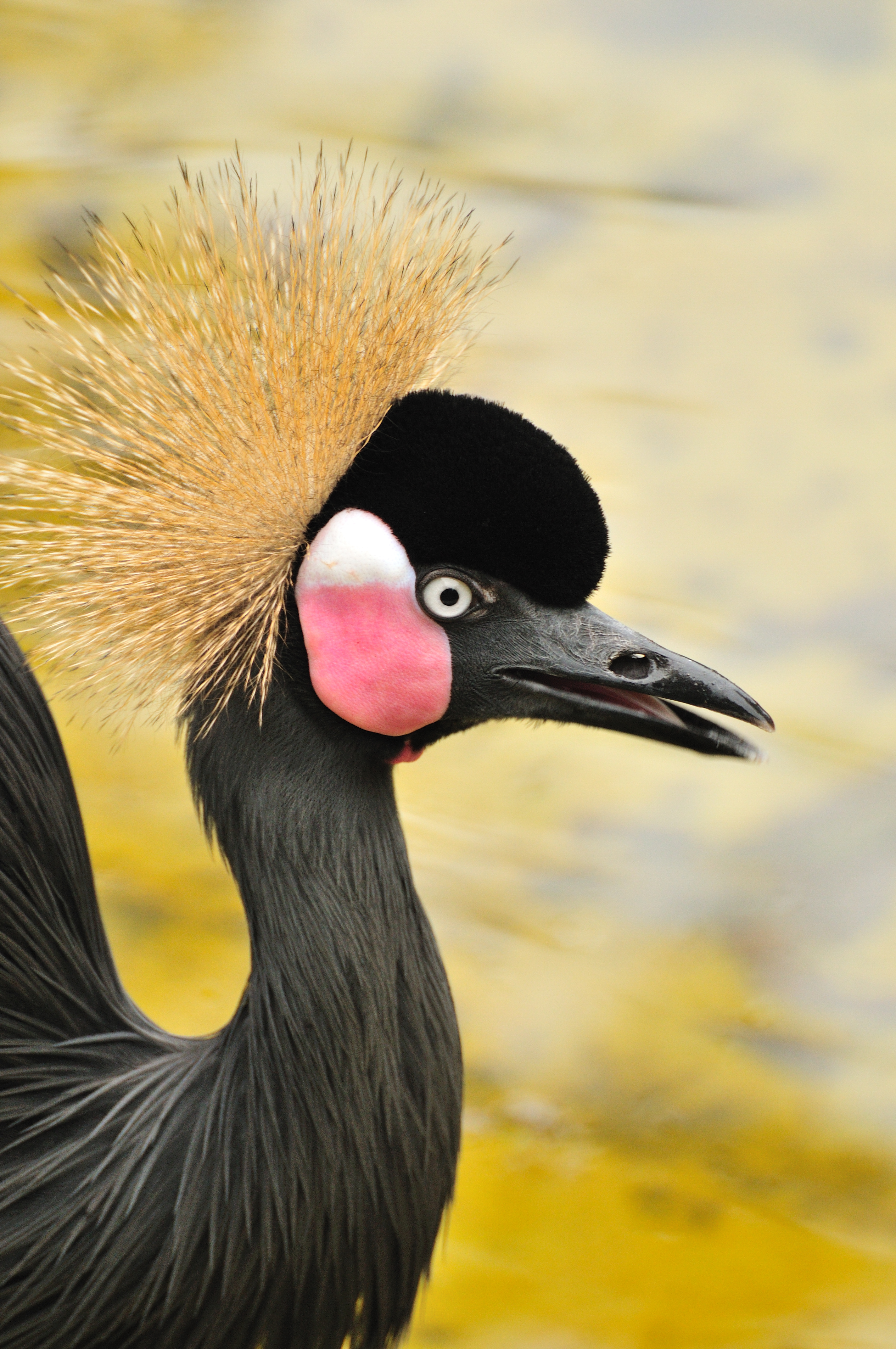 A Black Crowned Crane at St. Augustine Alligator Farm Zoological Park, Florida, USA.